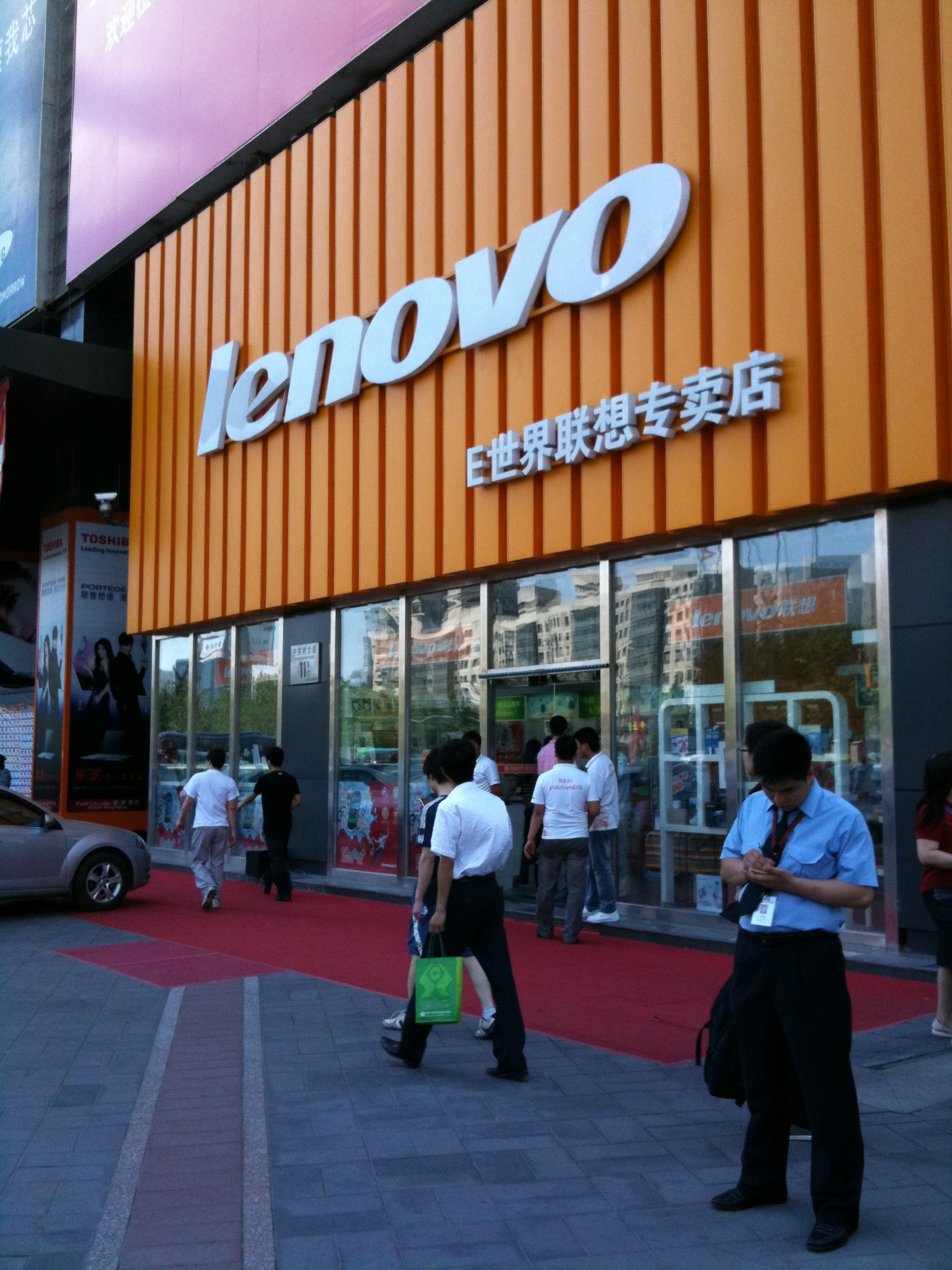 A Lenovo Store in China